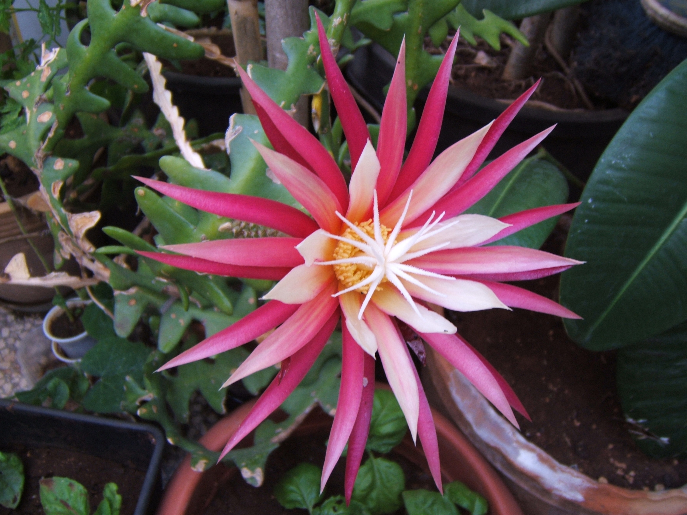 Selenicereus anthonyanus, succulent plant (this flower borns a time every year and it lives for a day)